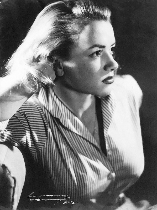 Portrait of Argentine actress Olga Zubarry.